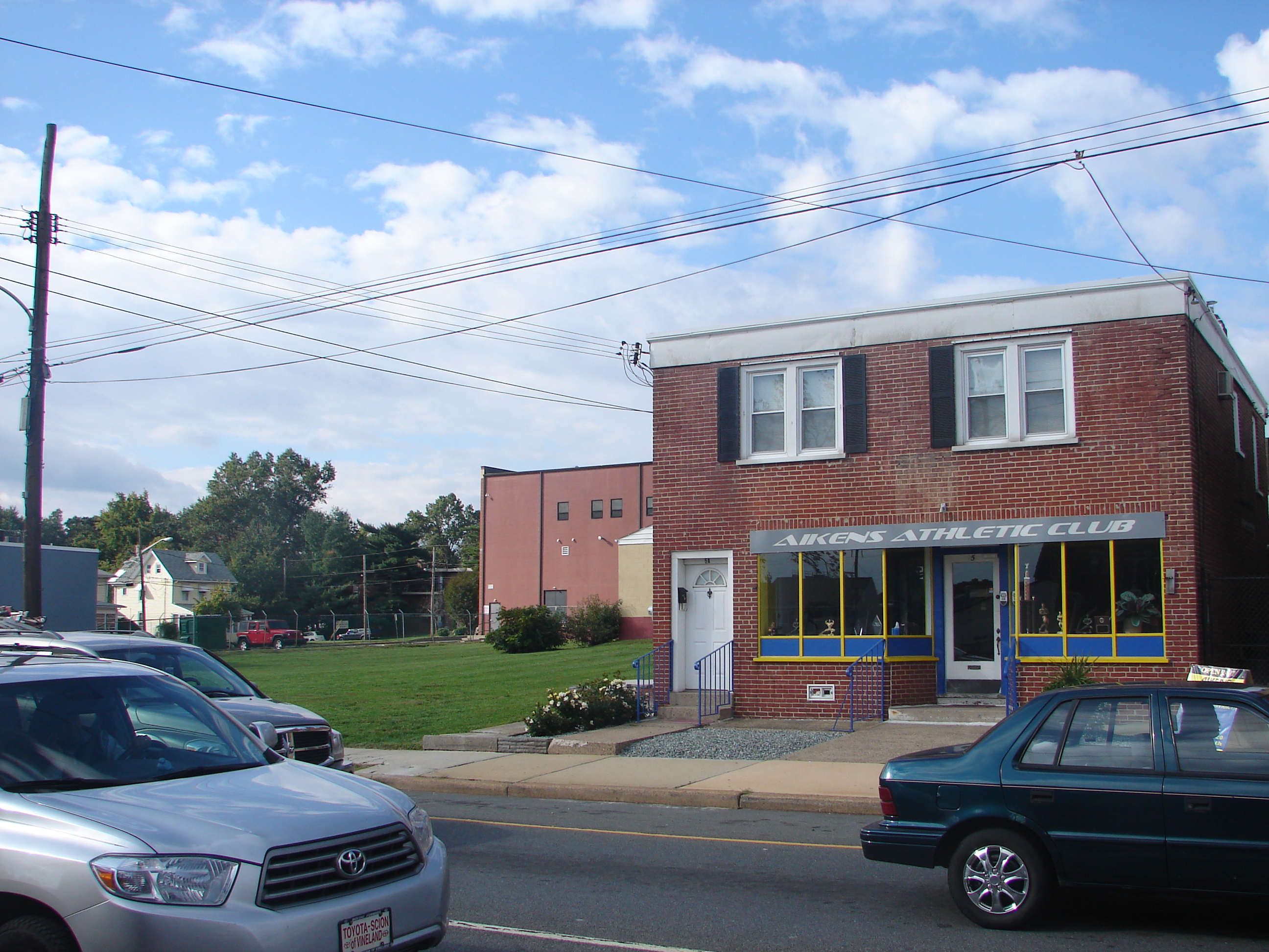 Site of former Lewis Weldin House on the NRHP since July 14, 1993. At 7-9 W. Market St. in Christiana Hundred, Newport, Delaware. The brick building is #5 W. Market Street and the empty lot next to it is #7-9, so the building appears to have been torn down.